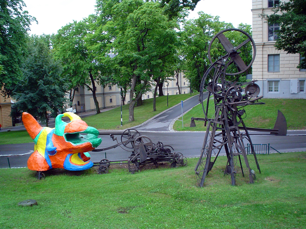 Niki de Saint Phalle "The Fantastic Paradise", 1966. Part of the sculptures infront of the Moderna Musset in Stockholm Sweden